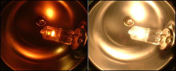 Practical demonstration of Planck law. A cold bulb emits red light, a hot one white. Own work, Anton (2006)